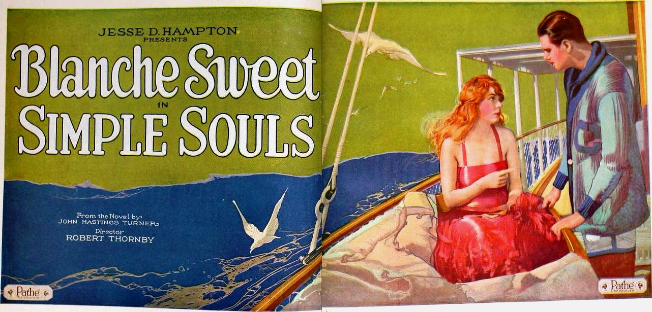 Ad for the American film Simple Souls (1920) with Blanche Sweet and Charles Meredith, on pages 4028 and 4029 of the May 8, 1920 Motion Picture News.